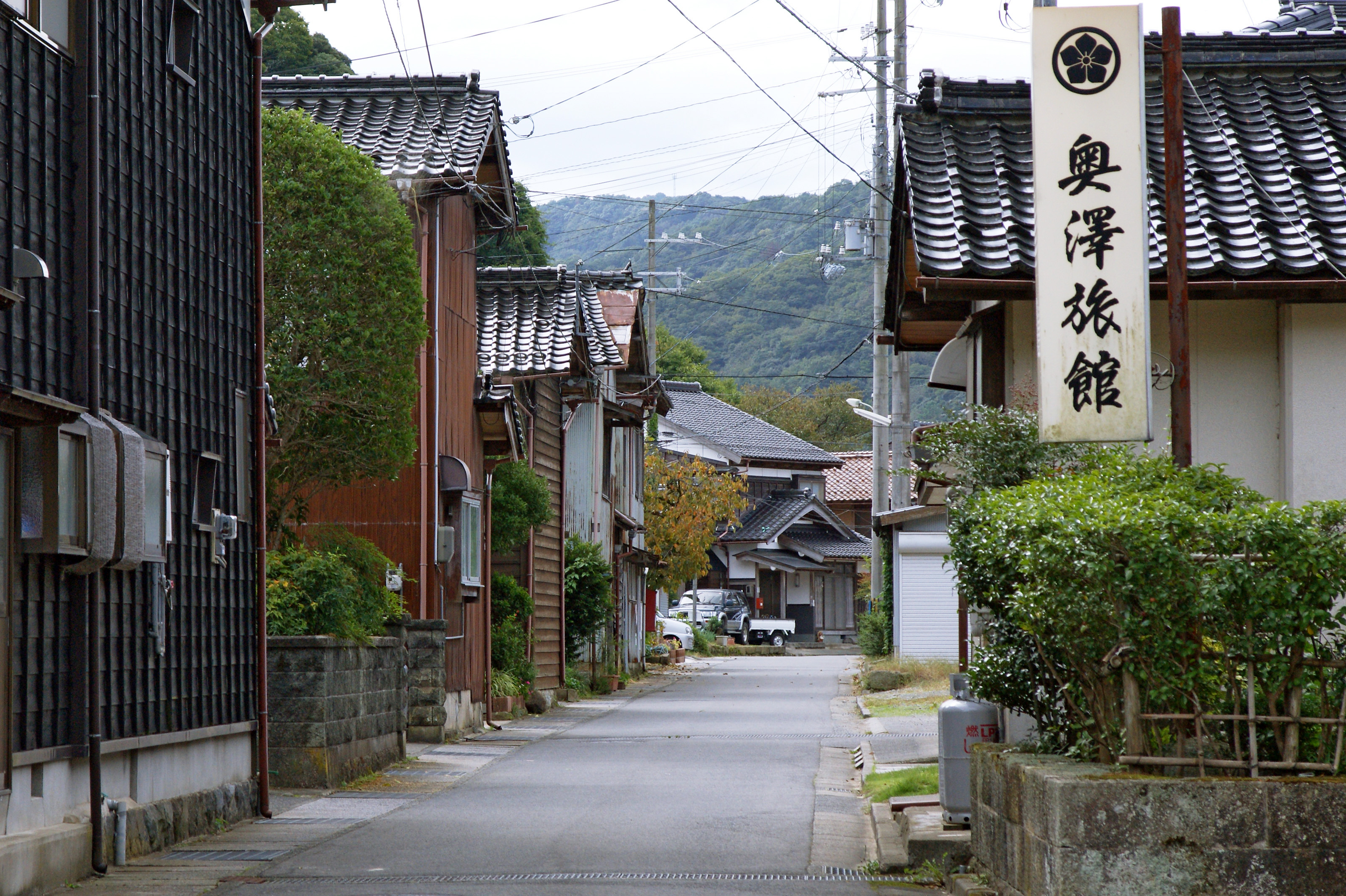 Shichikama Onsen of Hamasaka Onsenkyo in Shinonsen, Hyogo prefecture, Japan